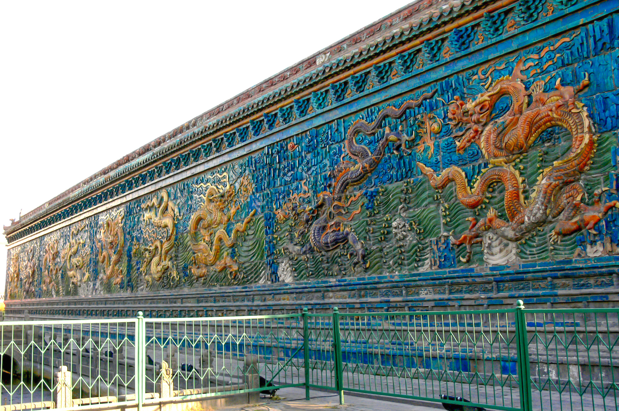 File Dragon Screen at Datong city